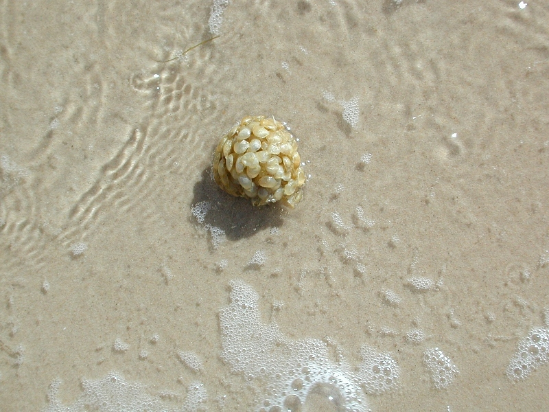 Buccinum undatum, cocoon, Sylt, Germany